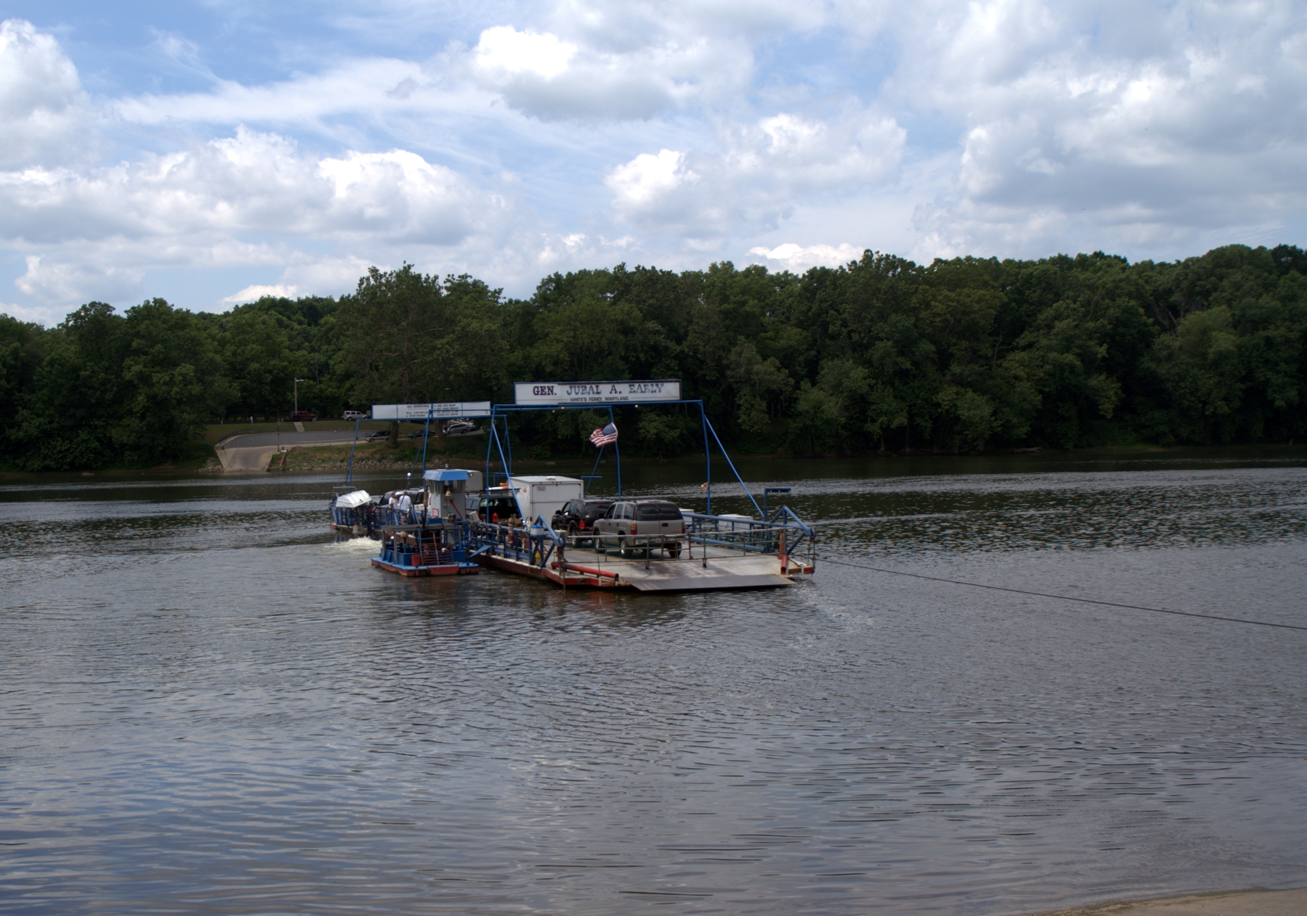 White's Ferry on Potomac River. The last operational ferry on the Potomac River. In Chesapeake & Ohio Canal National Historical Park, near mile marker 35.5.